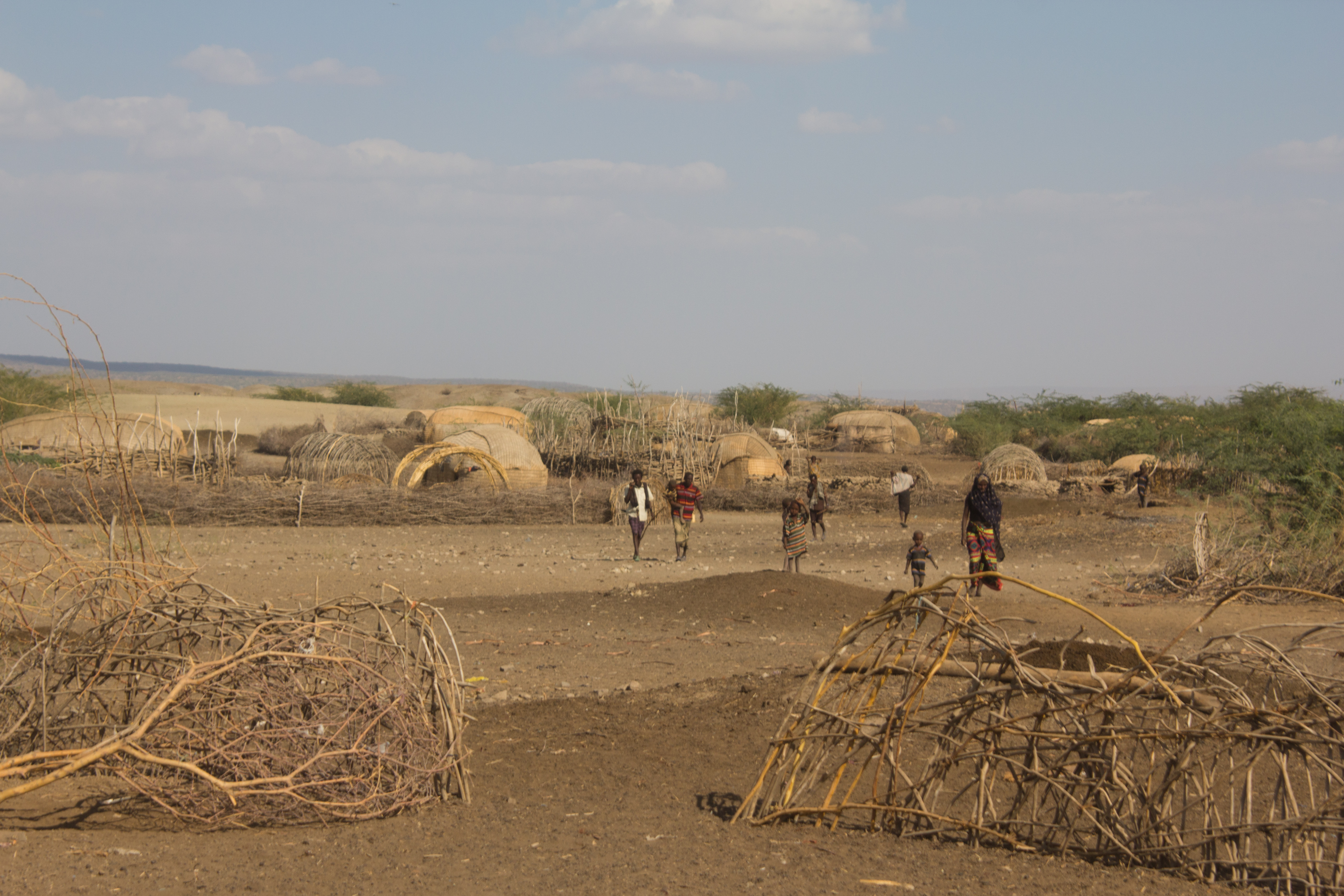 Although they usually are scattered through out the desert, they occasionally have bigger villages